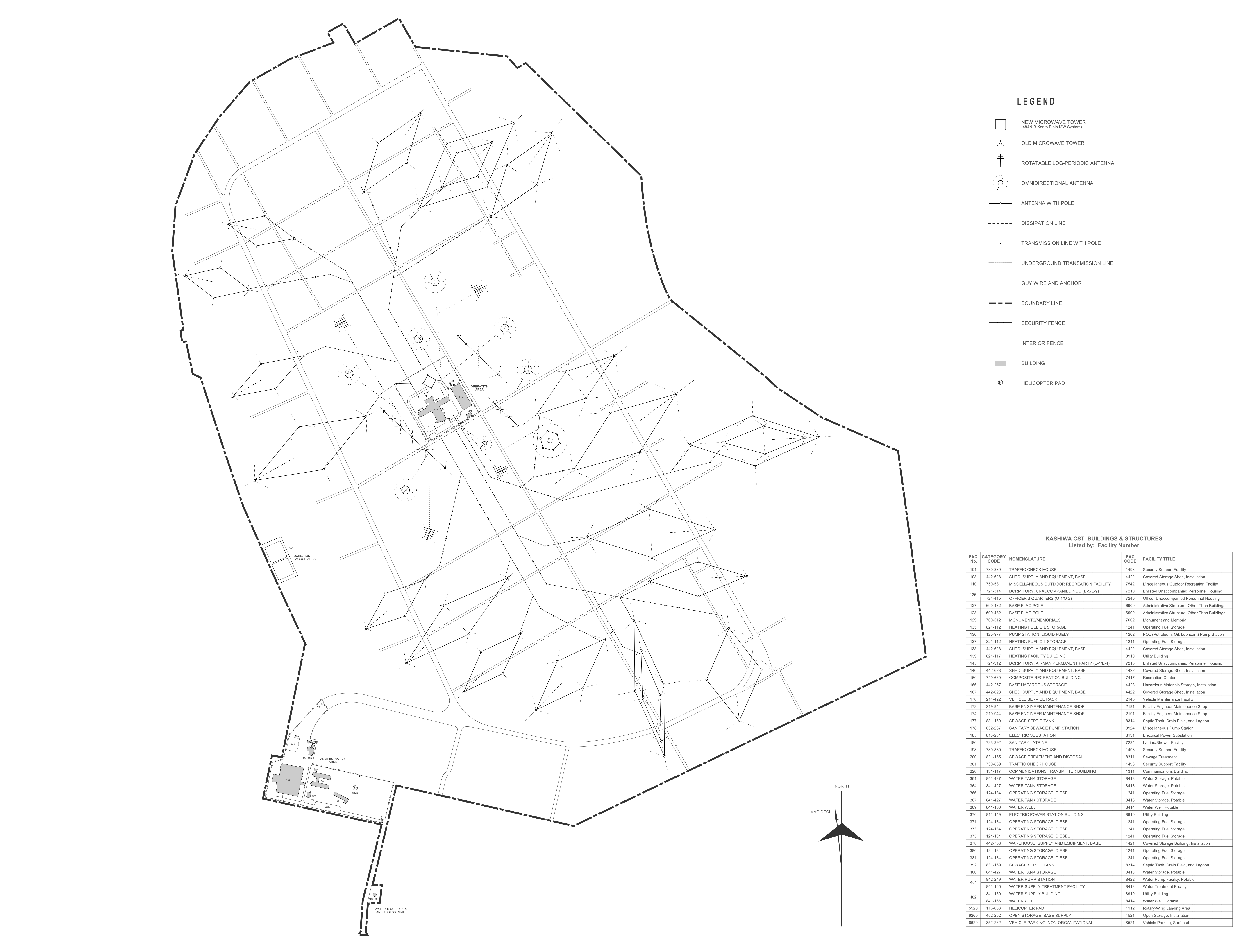 Base Layout Map, USAF Kashiwa Communications Station （late 1960s): In 1963, the DCA Mid-Range Plan had its primary objective the consolidation of the tri-service common user communications environment into one system. PACOM areas selected initially for consolidation were Guam (Navy), the Philippines (Air Force), Taiwan (Army), Okinawa (Army), and Japan (Air Force). Therefore, the Kashiwa site was transferred from the U.S. Army Signal Command, Japan to the AFCS/FECR 1956th Communications Group, and the facilities and area were placed under the control of the PACAF's 6100th Support Wing (aka Kanto Base Command) in July 1964. Afterward, due to electromagnetic interference problems, the local farmers who lived on the antenna field were evicted. Meanwhile the advent of new communications media, such as satellite relay, transpacific undersea cable, and AUTODIN reduces reliance on long-haul HF radio for applications.